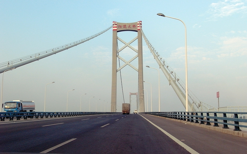 Yangluo Bridge in Wuhan